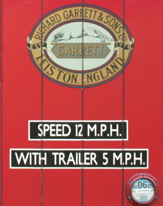 The Garrett company logo on the side of a 1920s Steam lorry cab, with speed restriction signs. This is a close up for the detail, A photo of the full cab is also uploaded on wikipedia or on Commons. (here)